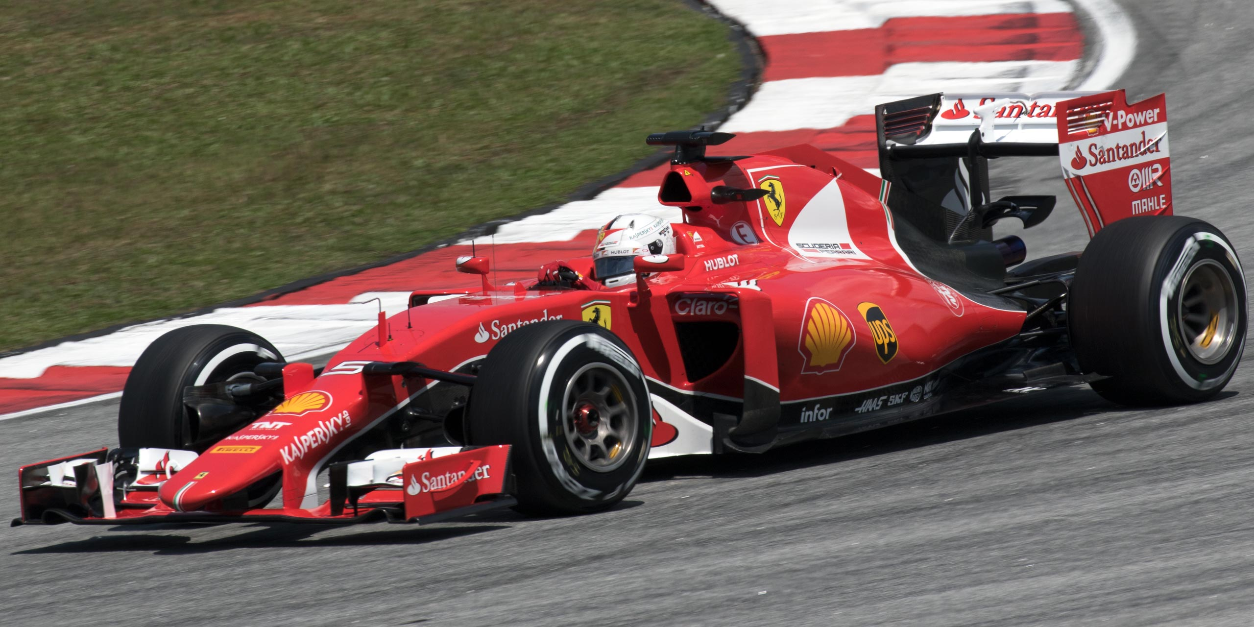 Formula One 2015 Rd.2 Malaysian GP: Sebastian Vettel (Ferrari)